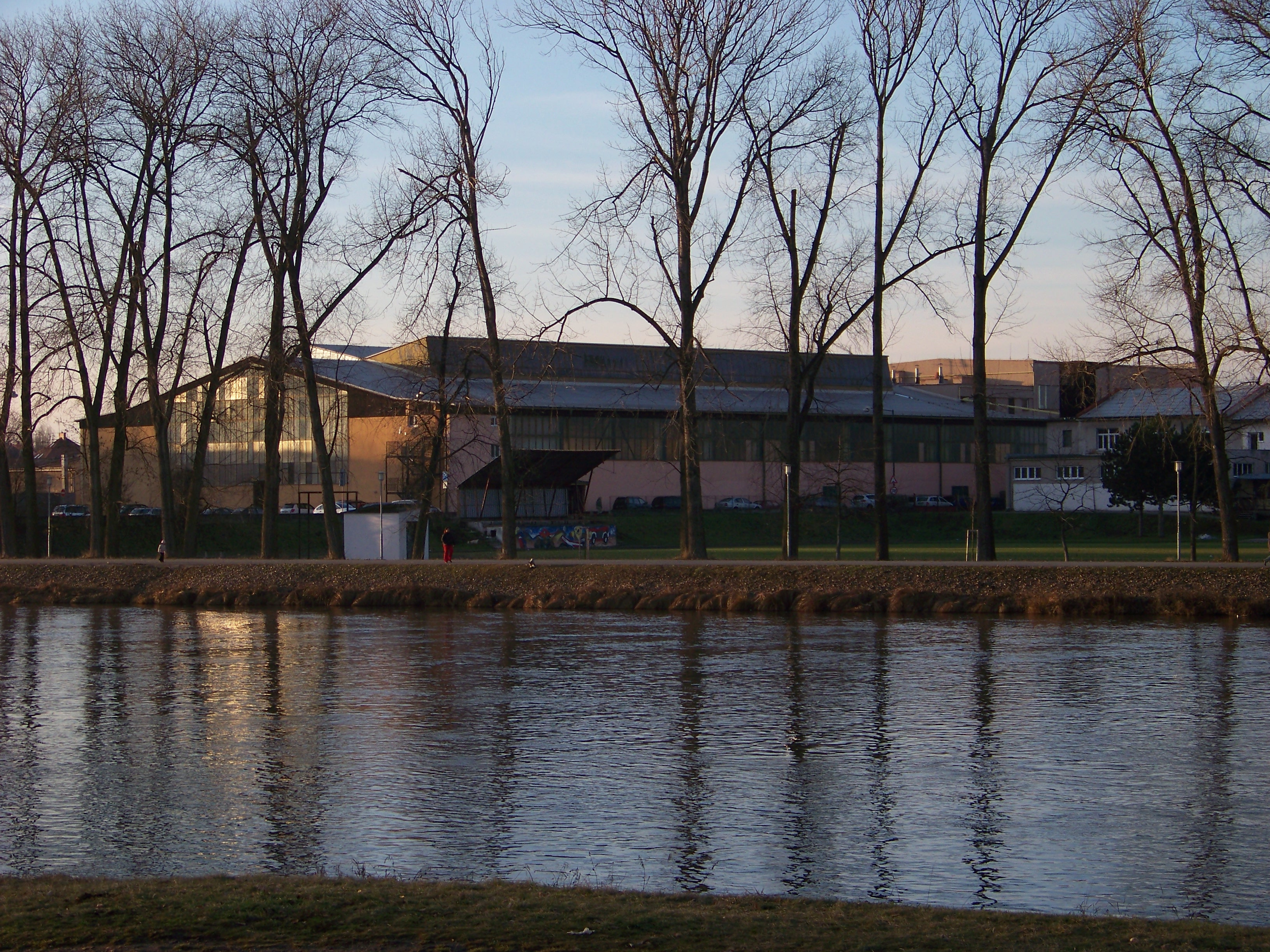 Nymburk, Nymburk District, Central Bohemian Region, Czech Republic. Elbe river and an ice stadium.